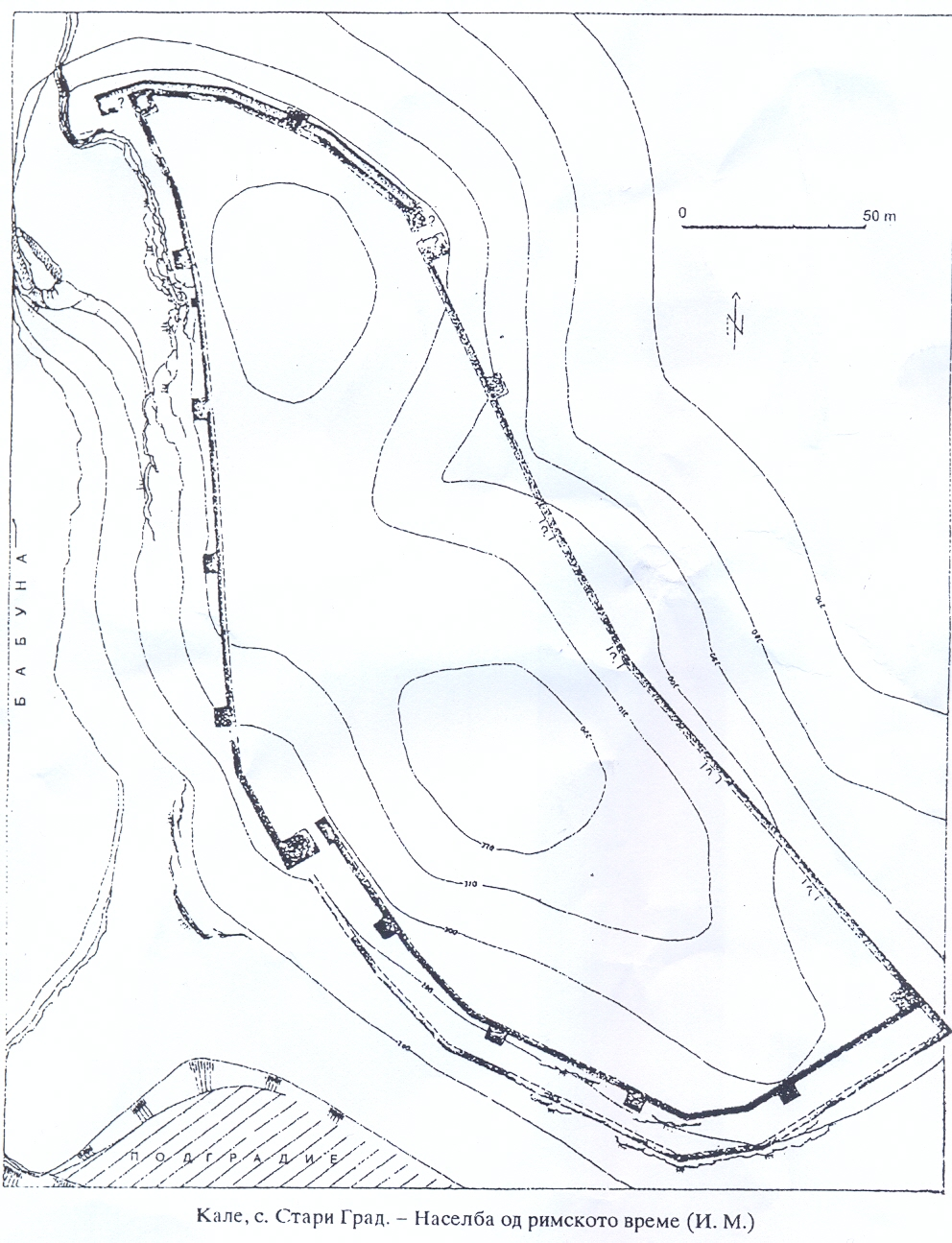 Plan of the Kale archaeological site near Stari Grad, Veles region, Macedonia